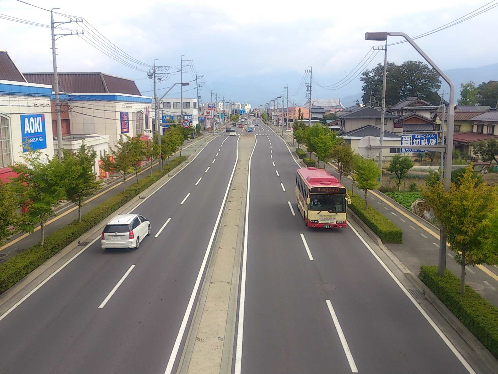 The Nagano Prefectural Road Route 58 in Minamitakada, Nagano City, view towards Suzaka